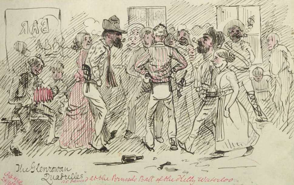 The Kellys, the Glenrowan quadrilles as danced at the Brussels Ball of the Kelly Waterloo; illustration, pen and ink; 13.8 x 21.7 cm.